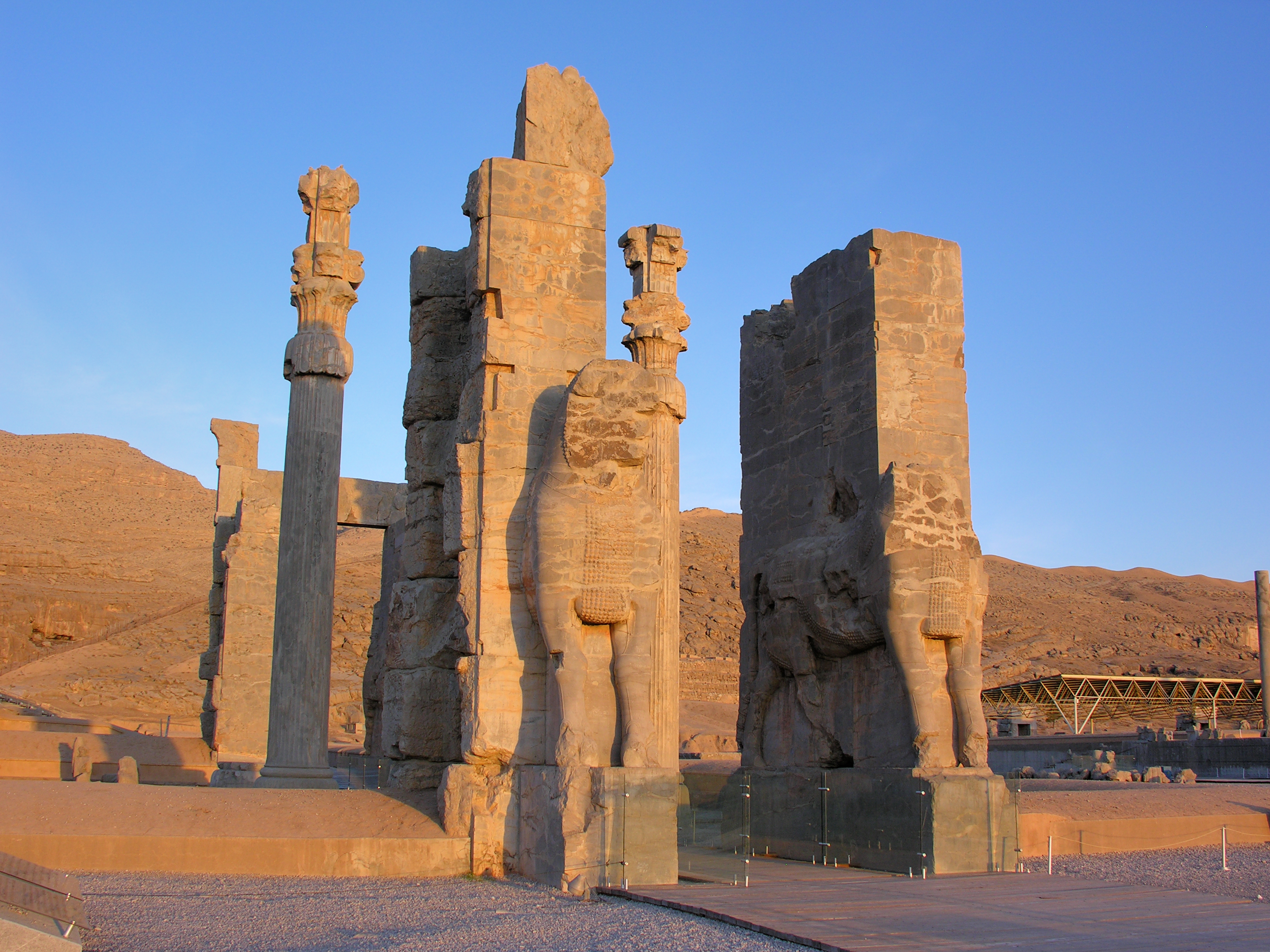 Iran, Gate of all nations